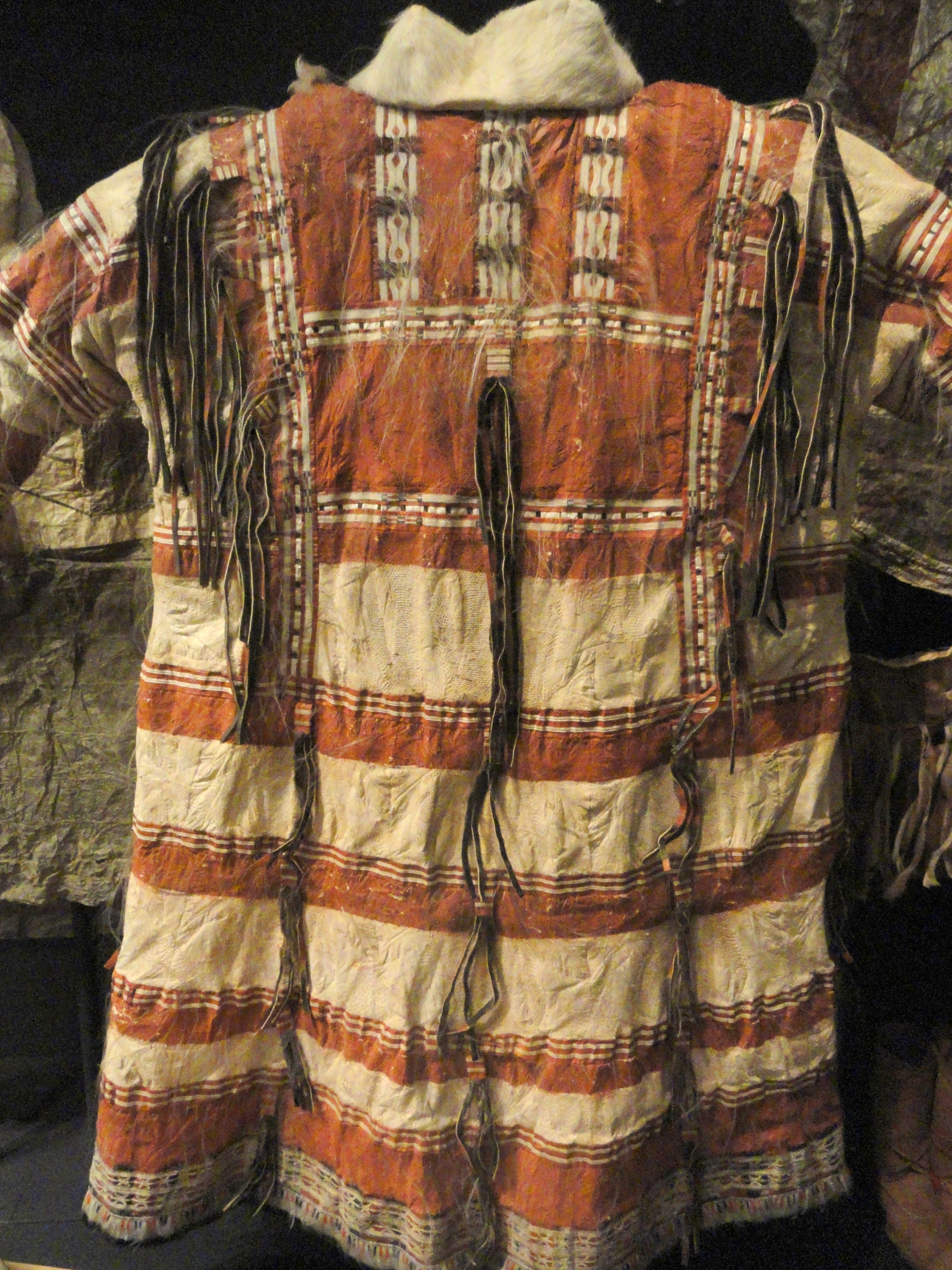 Exhibit in the Arvid Adolf Etholén collection, Museum of Cultures, Helsinki, Finland.